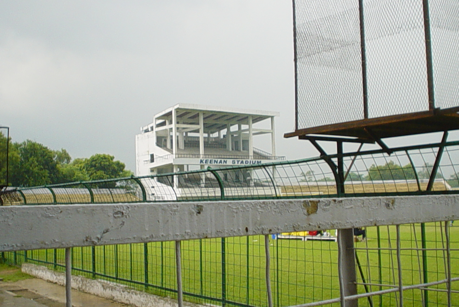 Keenan Stadium, Jamshedpur.